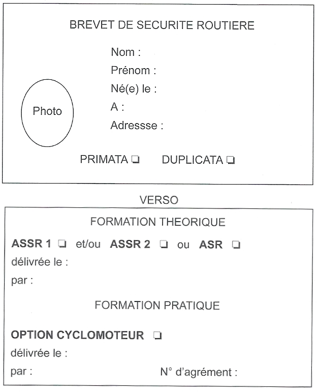 BSR